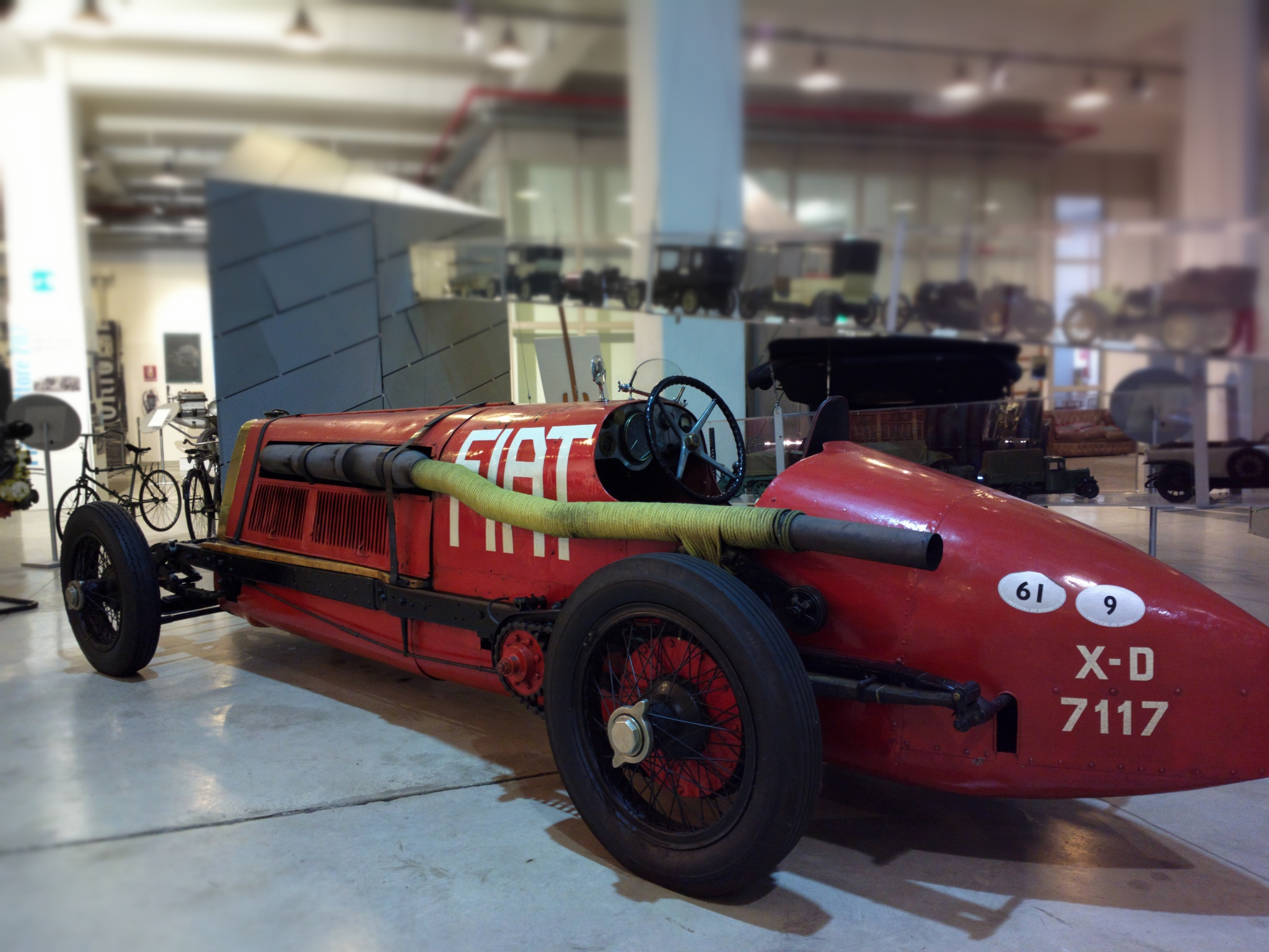 Fiat Mefistofele Eldridge Centro Storico Fiat